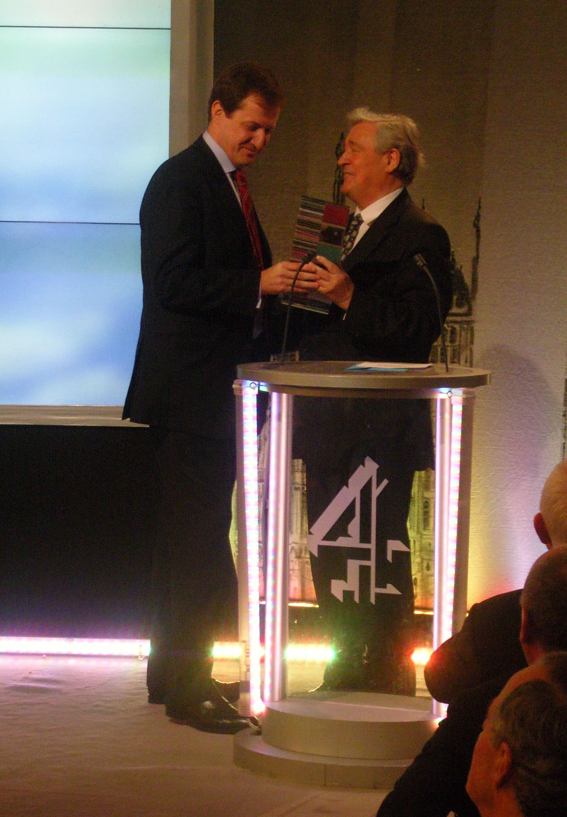 Geoffrey Robinson (right) presenting Alastair Campbell with the Channel 4 Policital Book of the Year award for The Blair Years on 23 January 2008.